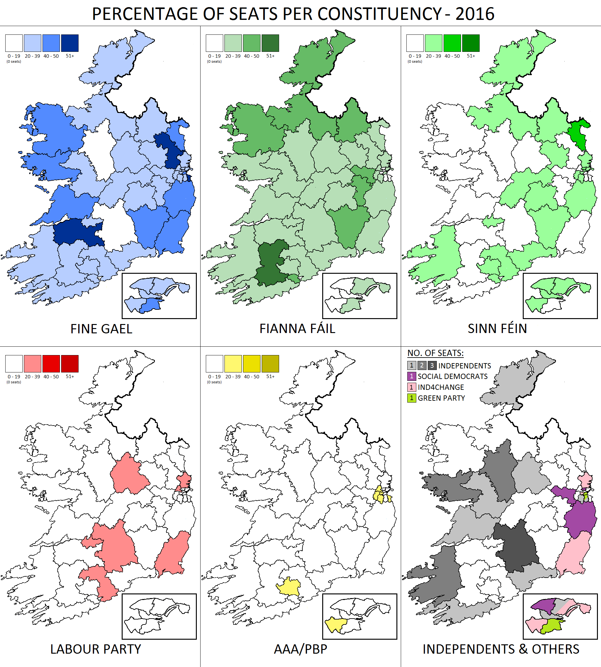 Results of the 2016 Irish general election.